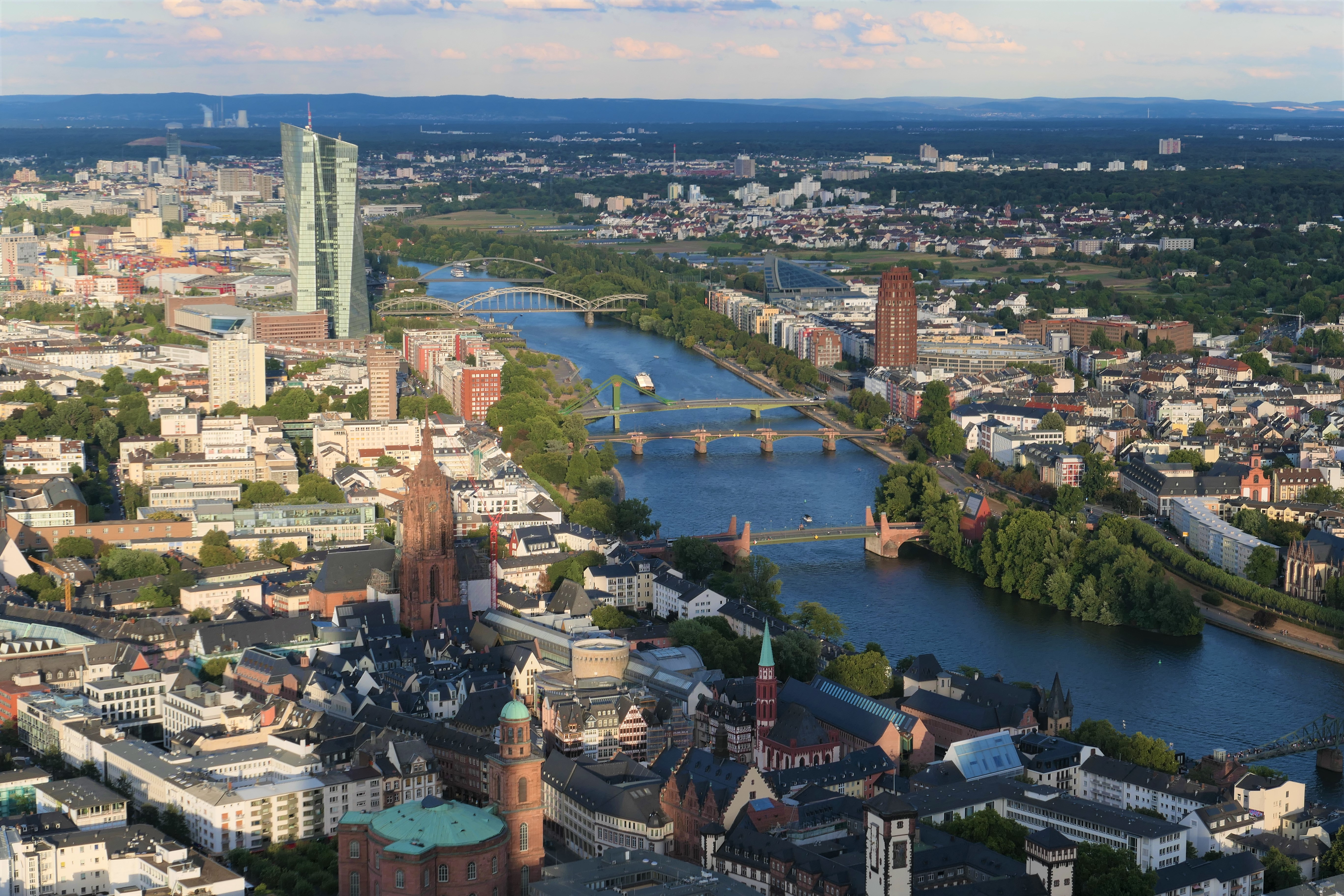 On top of the Main Tower looking east